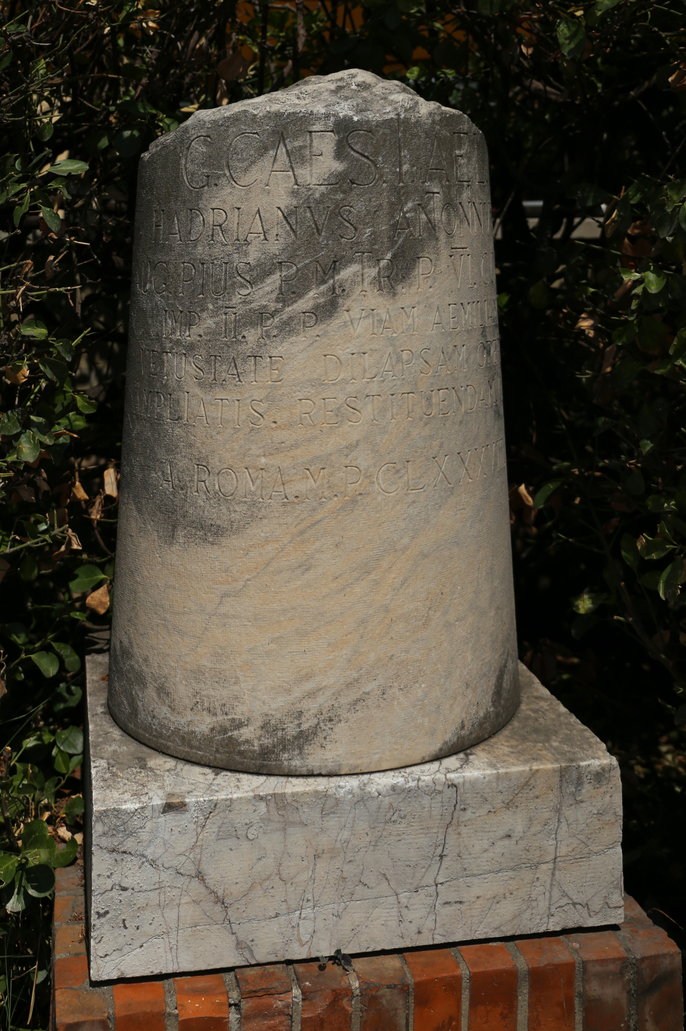 Cippo di Rimazzano